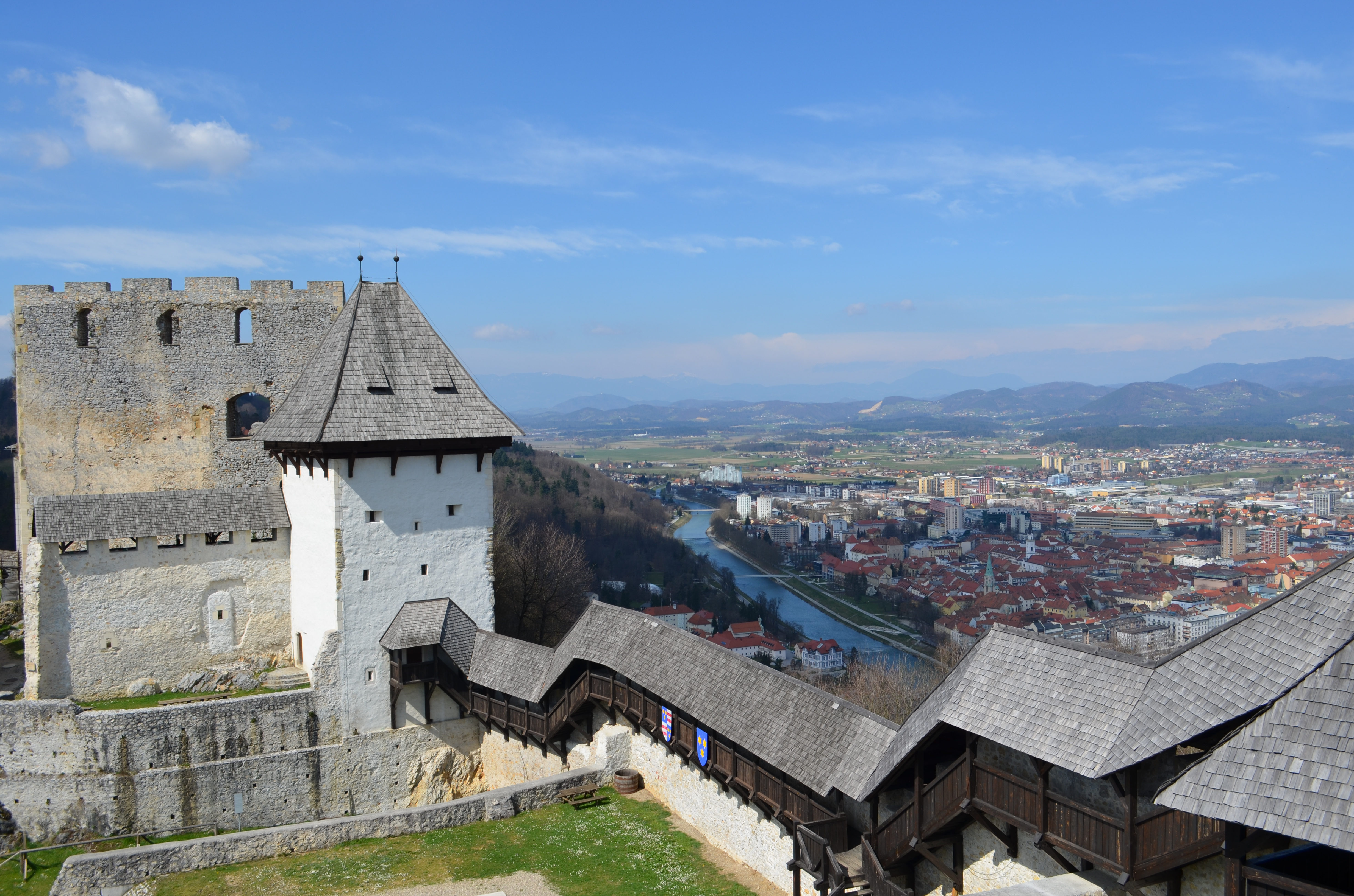 View over Celje from Old town castle.